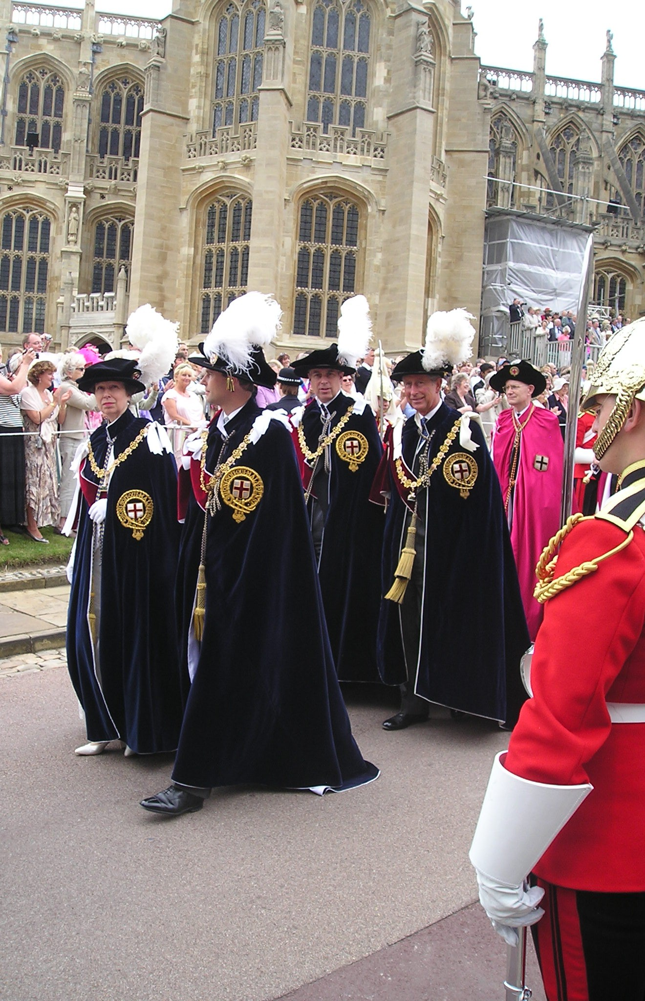 (left to right) The Princess Royal, The Earl of Wessex, The Duke of York and The Prince of Wales in procession to St George's Chapel, Windsor Castle for the annual service of the Order of the Garter. This was the first occasion on which all four of Queen Elizabeth's children had attended the Garter Service, following the appointment of the Duke of York and the Earl of Wessex to the Order in April 2006.